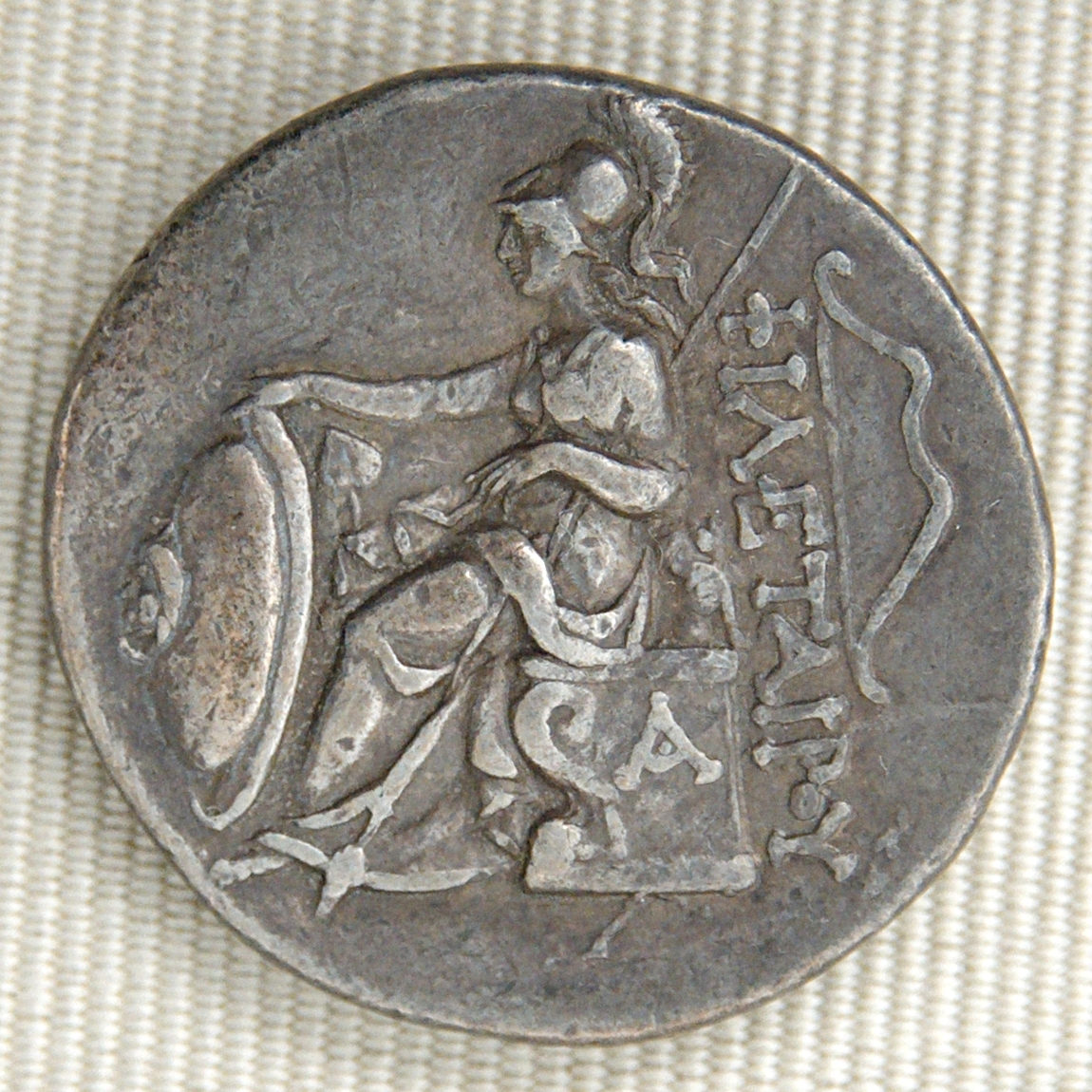 Tetradrachm of Eumenes I of Pergamon, reverse: Athena enthroned.